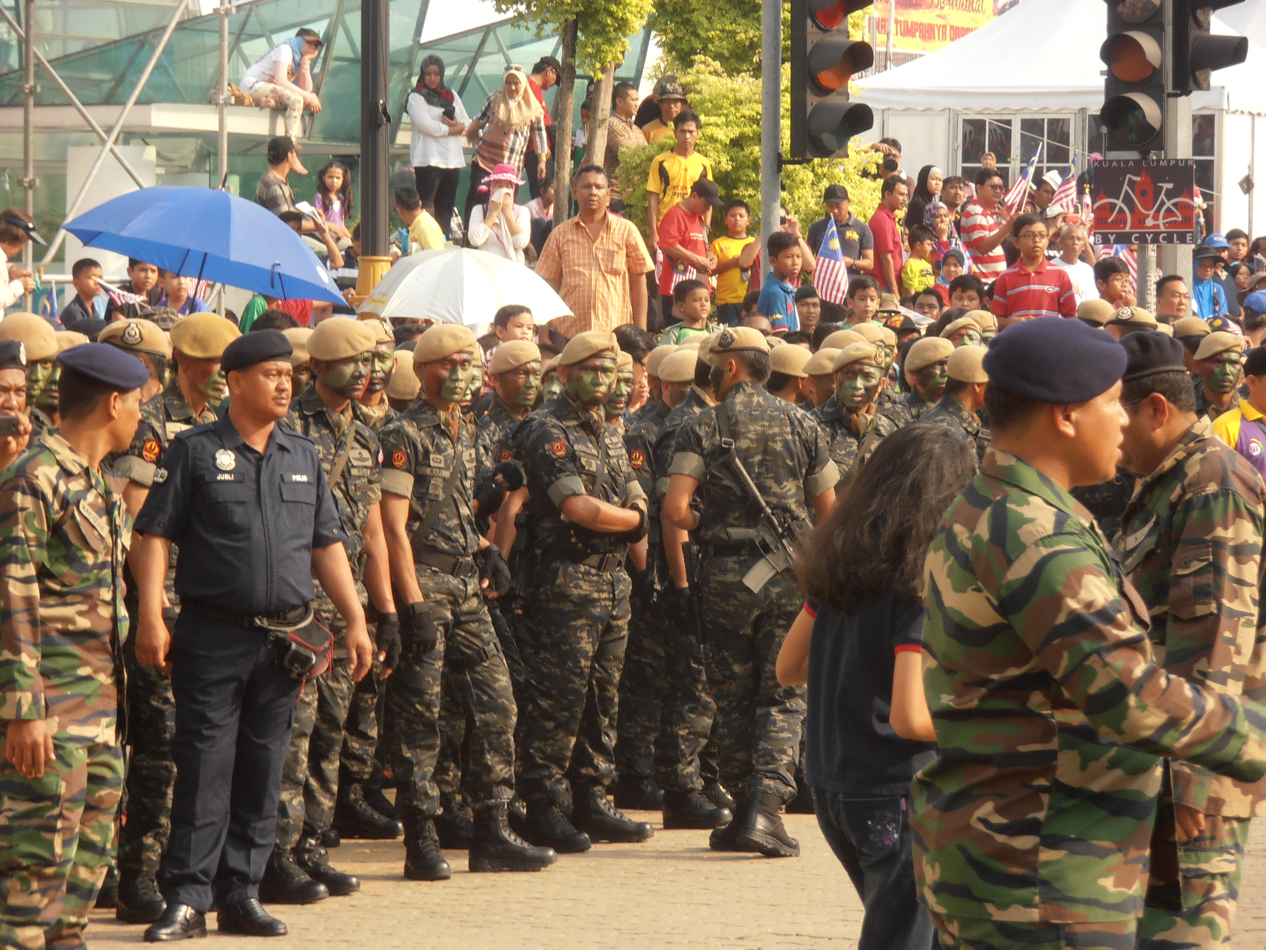 Officers from 69 Commando special ops of Royal Malaysia Police standby to demonstrate the Gayung Perang war dances during the 56th National Day Parade of Malaysia at Merdeka Square, Kuala Lumpur. The officer on the right has a slung Colt M4A1 Carbine.